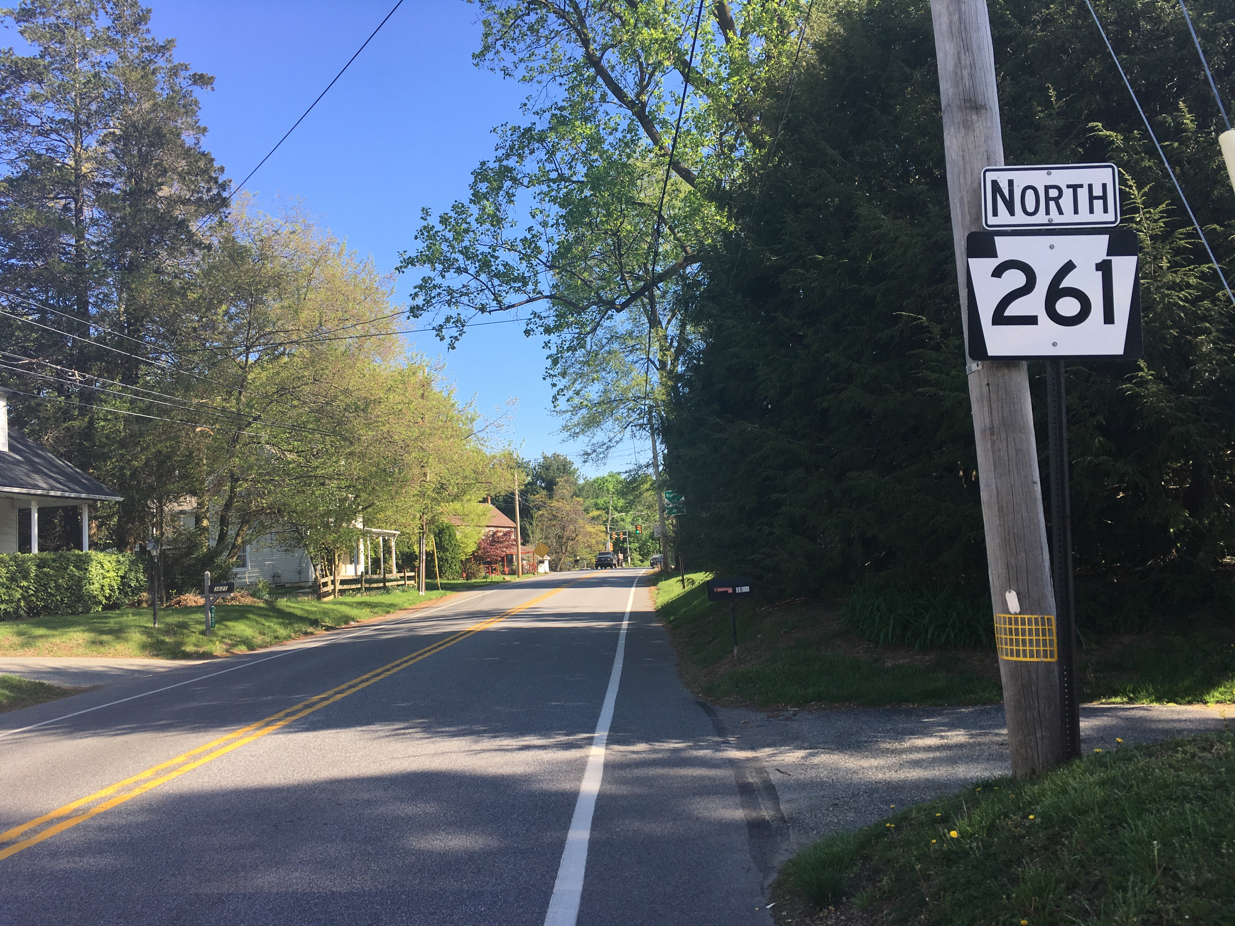 Northbound Pennsylvania Route 261 (Foulk Road) past its southern terminus at the Delaware border, where it connects to Delaware Route 261 (Foulk Road), in Bethel Township, Pennsylvania